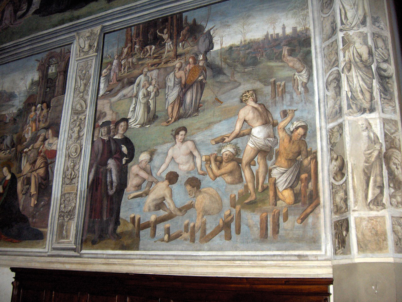 San Frediano draws the new course of the river Serchio (Chapel of the Cross); basilica San Frediano; Lucca, Italy Own photo - photo made on 10 October 2005